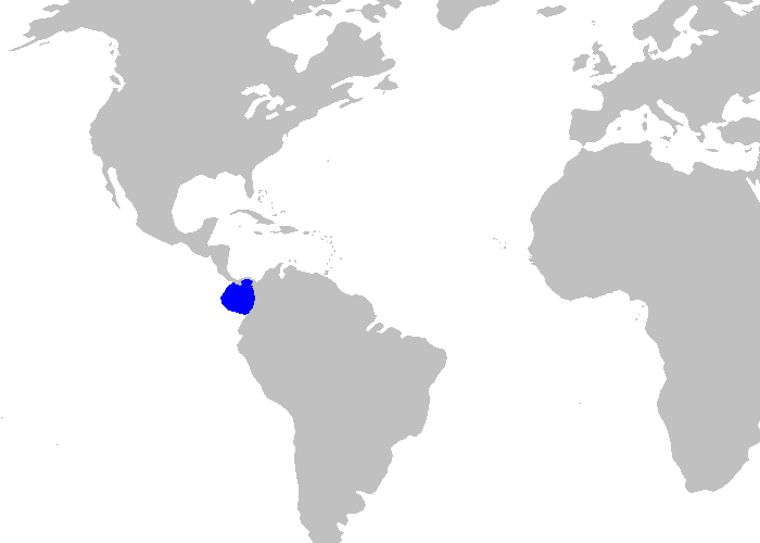 Distribution map for Apristurus stenseni